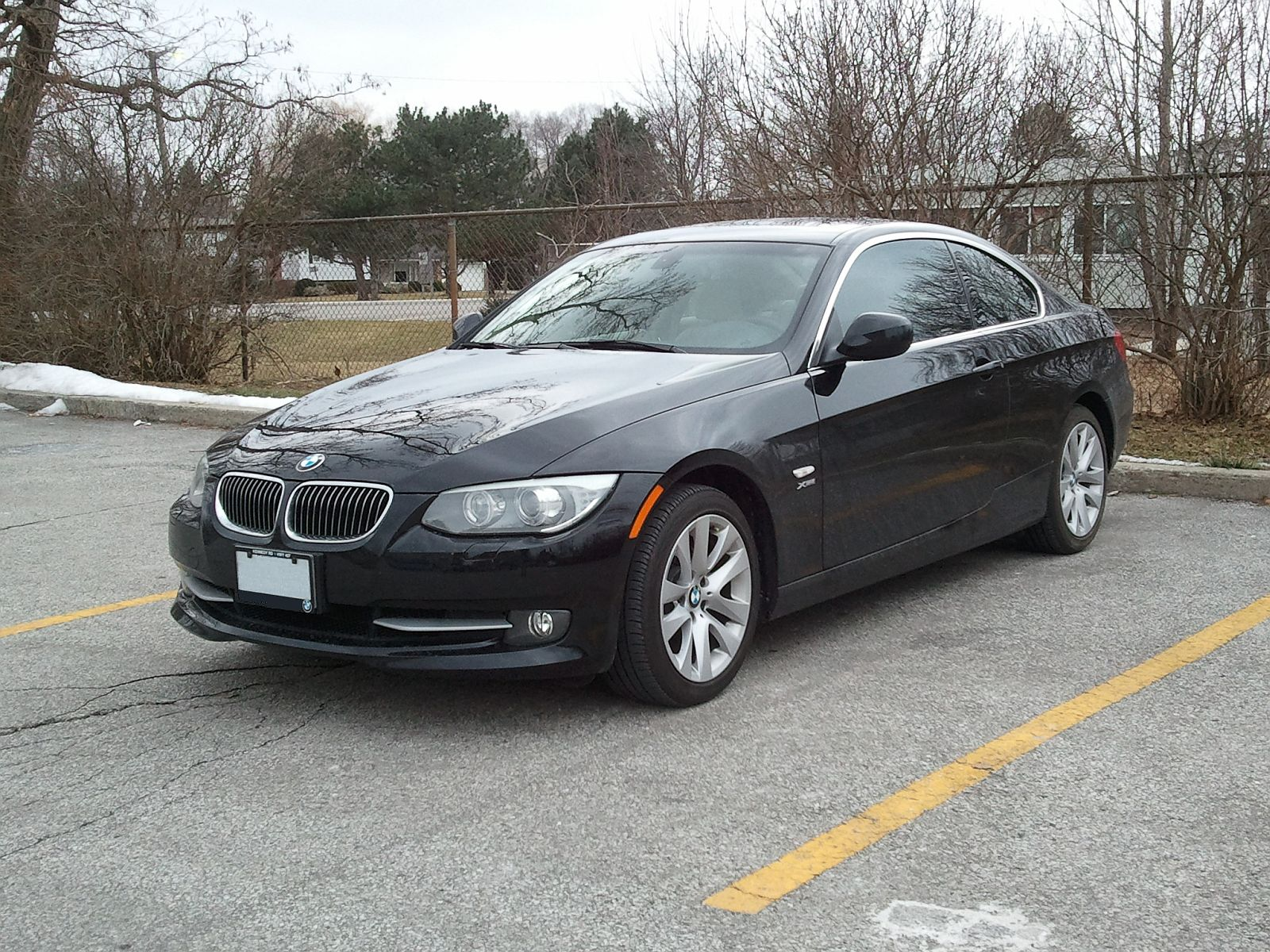 2011 BMW 328xi Coupe (E92) Facelift